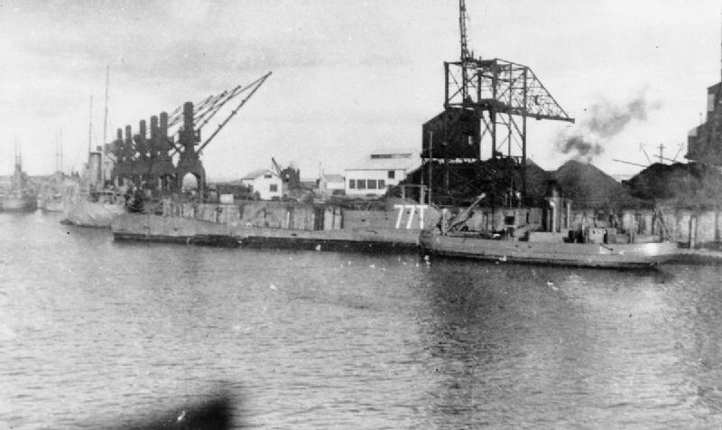 British T class submarine HMSM TETRARCH alongside the coaling jetty at Blyth.